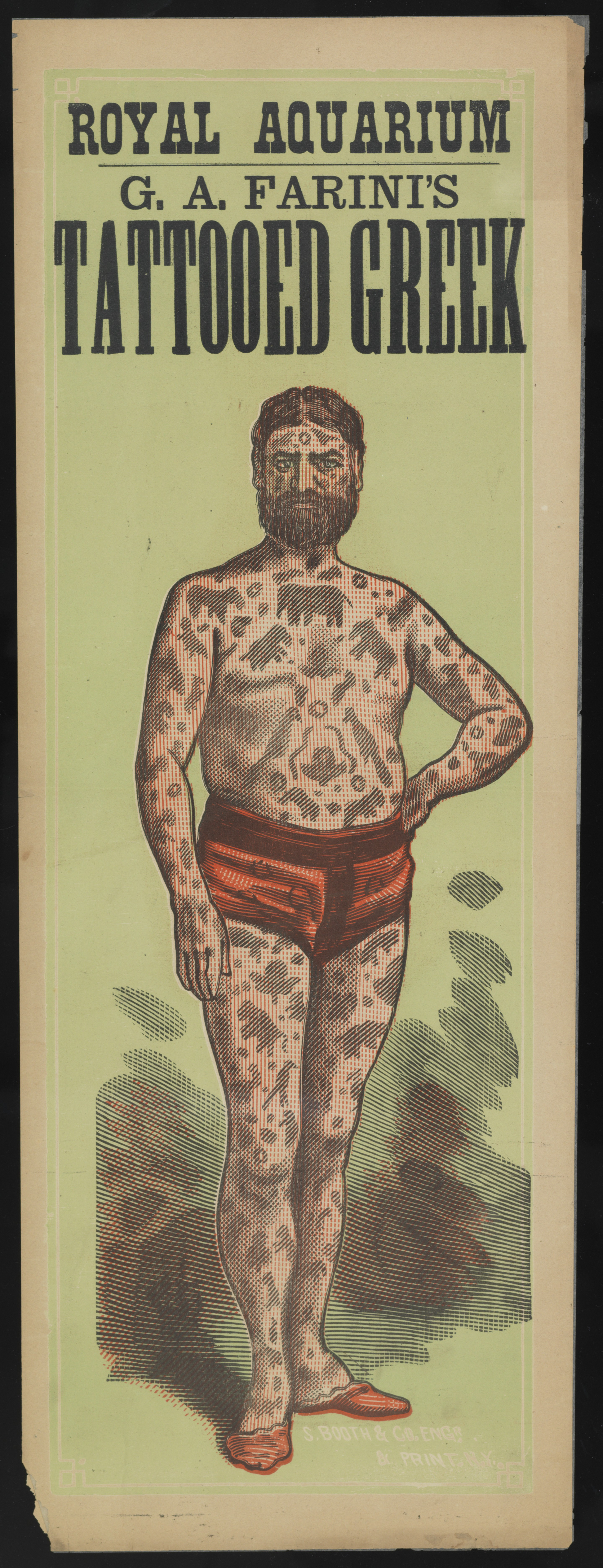 Captain Costentenus, a man with tattooes all over his body. Colour line block. Captain Costentenus, identified by comparison with another poster of Farini's in which he is so named (see no. 38986i in this catalogue), full-length, standing. Iconographic Collections Keywords: Captain Costentenus; Royal Aquarium (New York, N.Y.); G. A. Farini